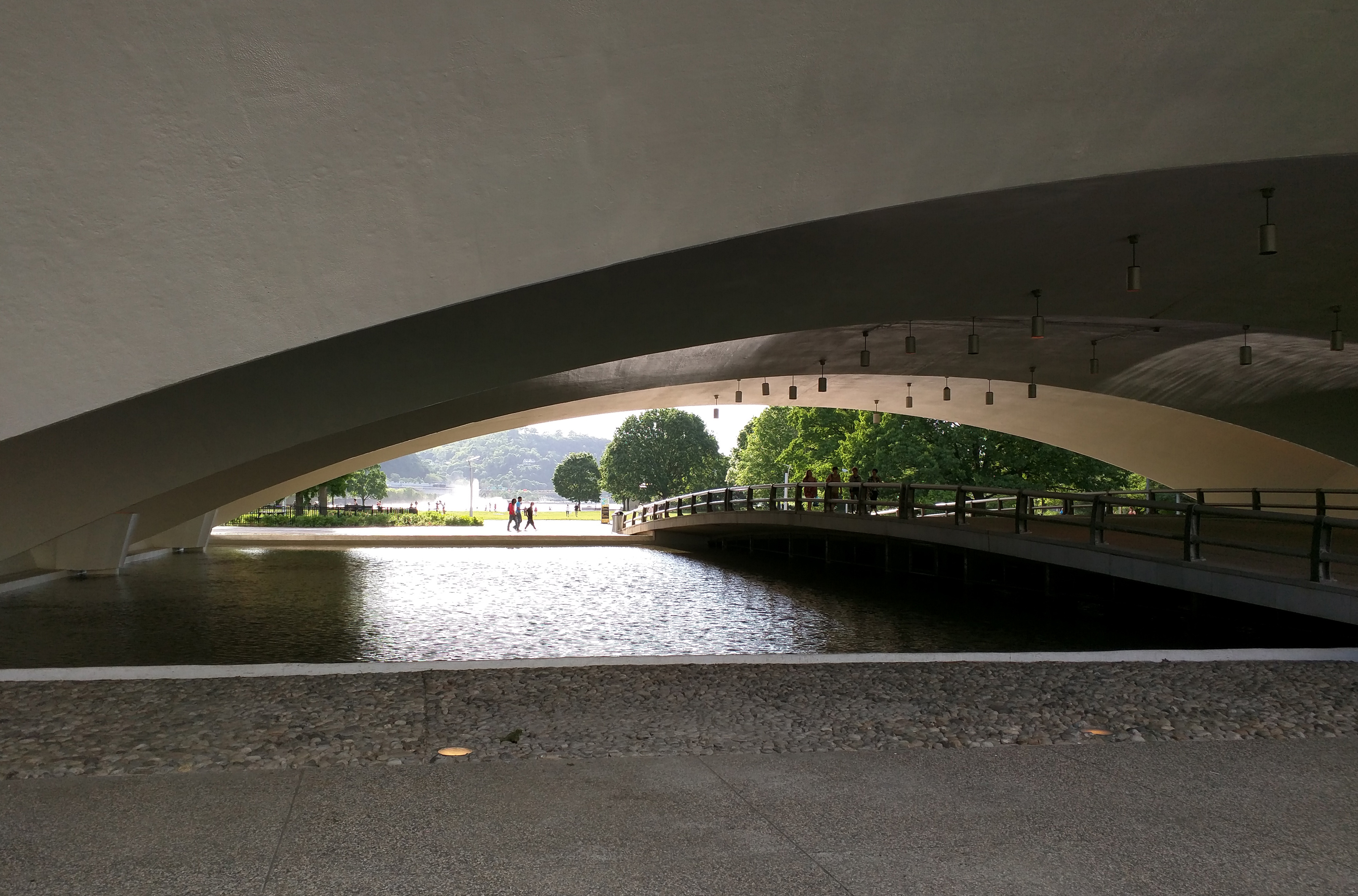 The pedestrian underpass under Interstate 279 in Point State Park, Pittsburgh, Pennsylvania